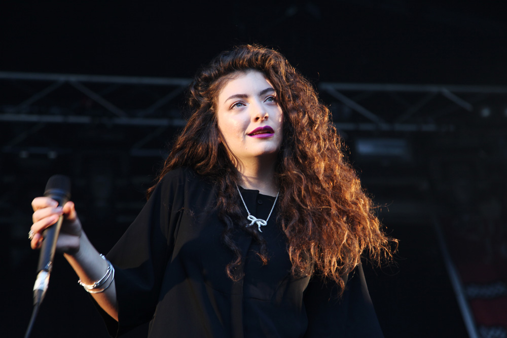 Lorde at the 2014 Sydney Laneway Festival